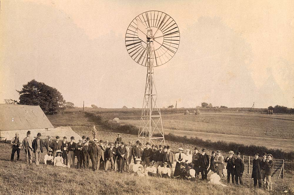 The windpump erected in 1895 by John Wallis Titt at Hinton Charterhouse, Somerset.